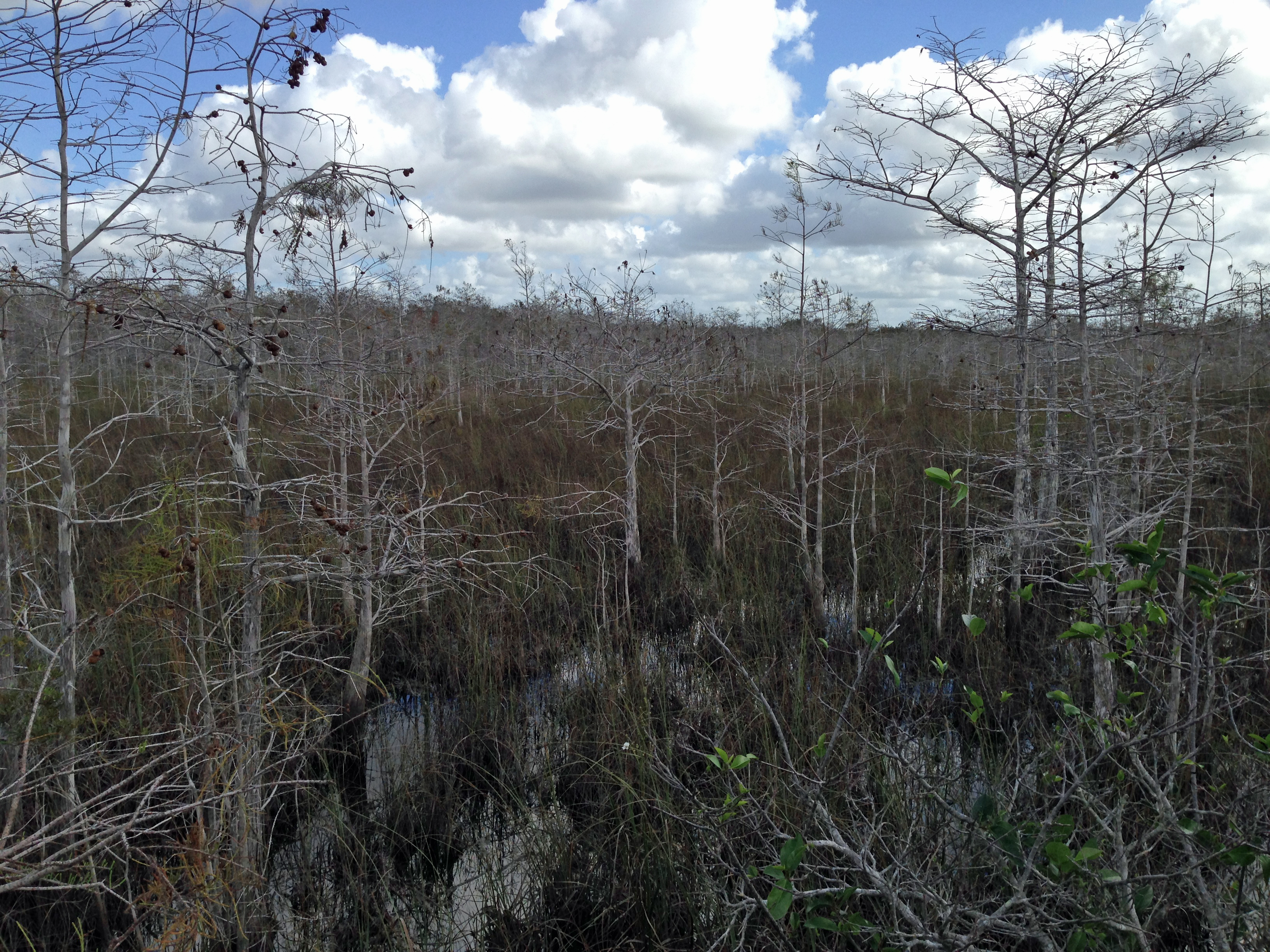 A cypress swamp in winter along in Everglades National Park, Florida.